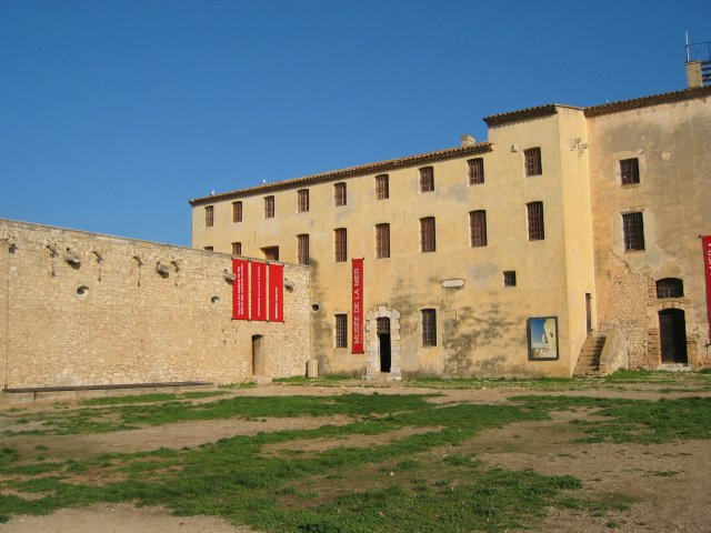 Lérins Islands - Île Ste-Marguerite: Museum of the sea & Prison of the iron mask